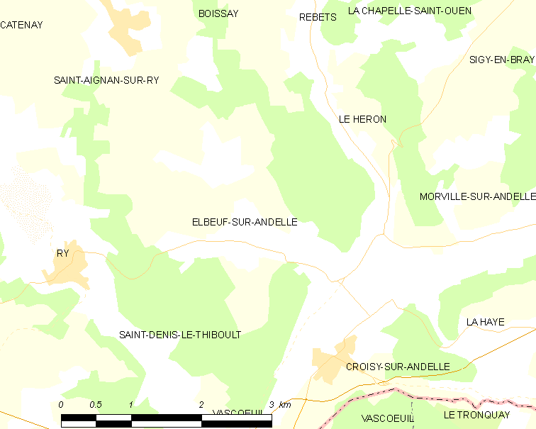 Map of French municipality Elbeuf-sur-Andelle